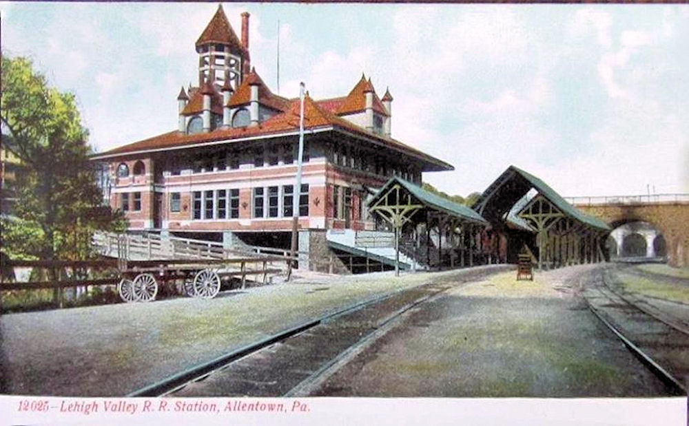 Lehigh Valley Railroad station Postcard